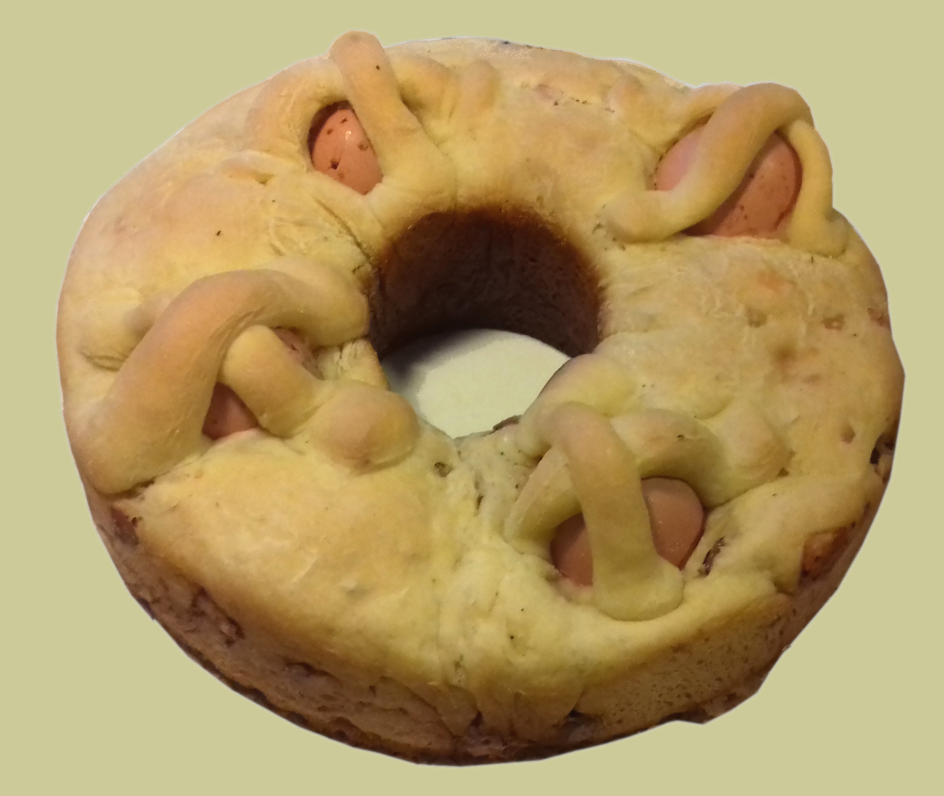 Neapolitan Easter Casatiello photographed in Rome at my home. My soulmate baked it, I only photographed it.